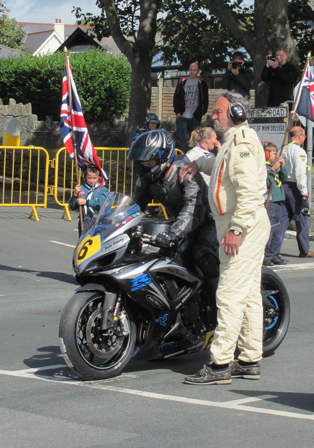 Andrew Soar, TT Grandstand - 2014 Isle of Man 2014